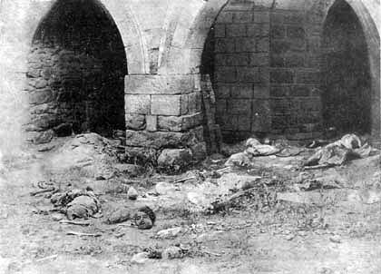 Armenian monastery near Bitlis